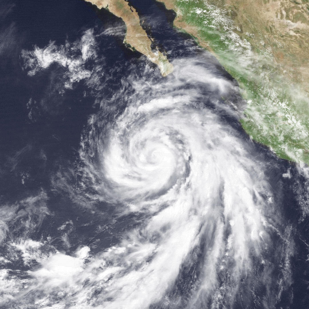 Hurricane Darby rapidly intensifying off the southwest coast of Mexico on July 5, 1992